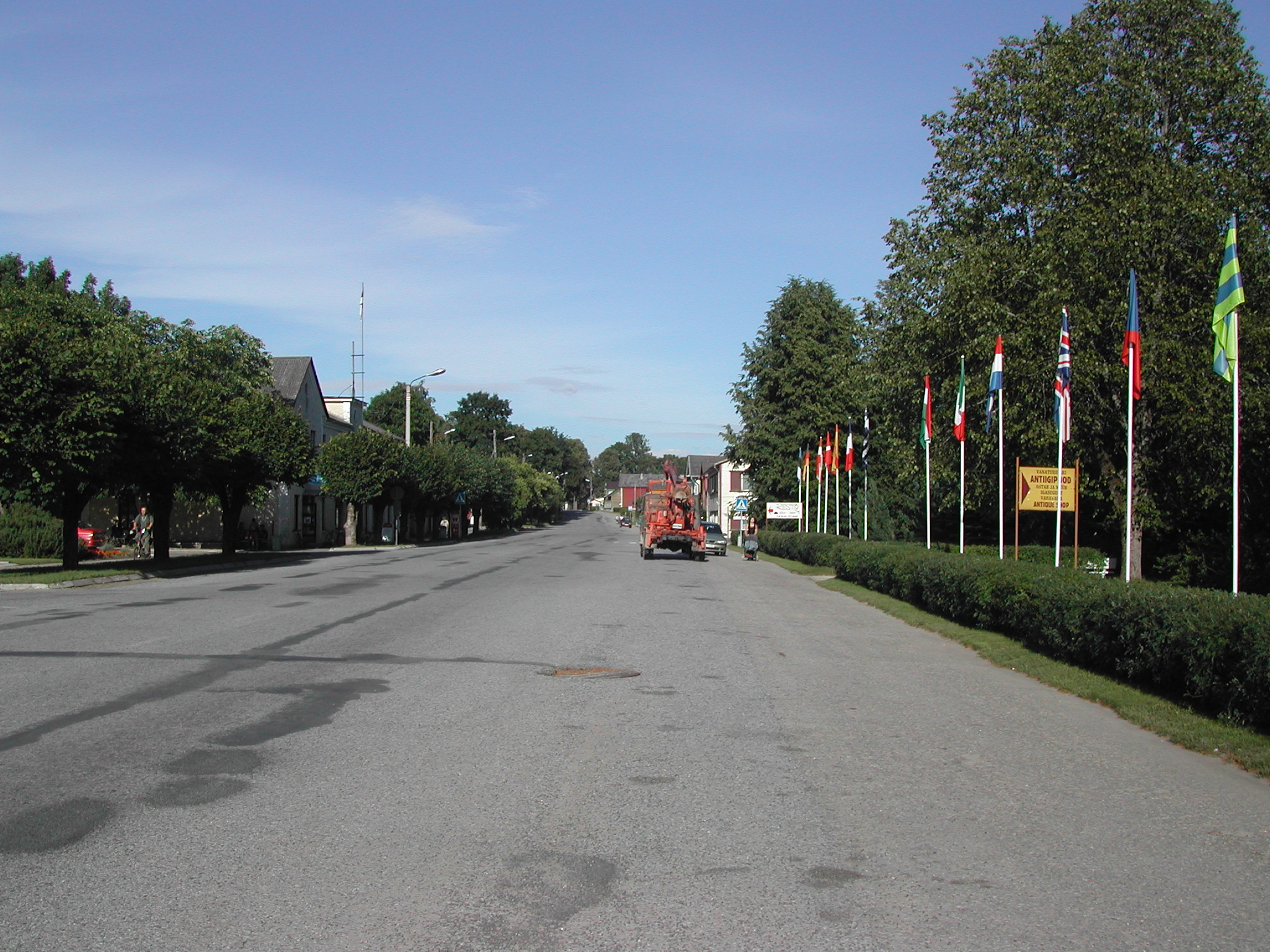 Main road of Kilingi-Nõmme, Estonia